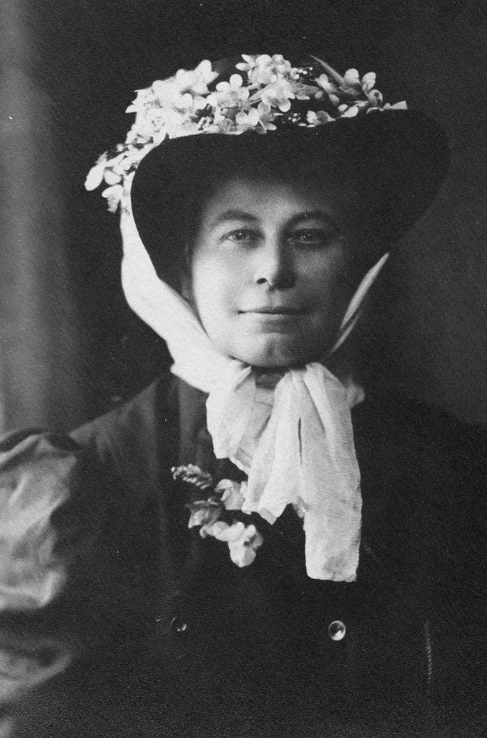 Alice Eastwood, c. 1910